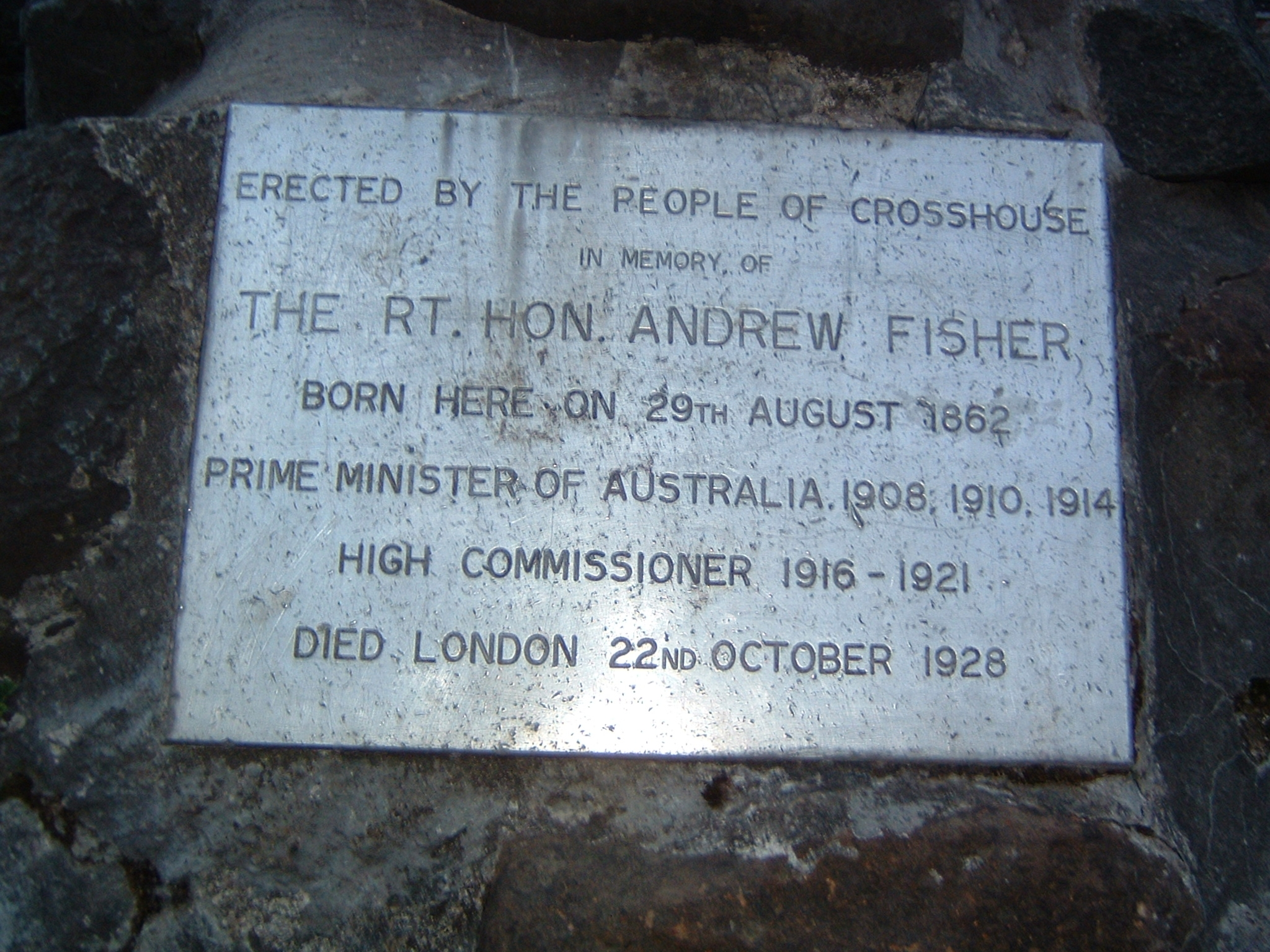 Closeup of the plaque on the Memorial Cairn to Australian Prime Minister Andrew Fisher in his birthplace of Crosshouse, Scotland. See also Image:Fisher1.JPG